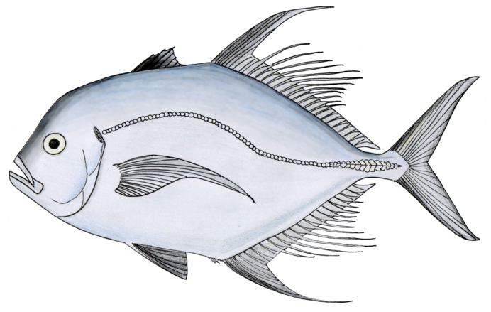 Hand drawn and coloured image of the longfin trevally, Carangoides armatus. based on photograph by van der Elst et al 1994